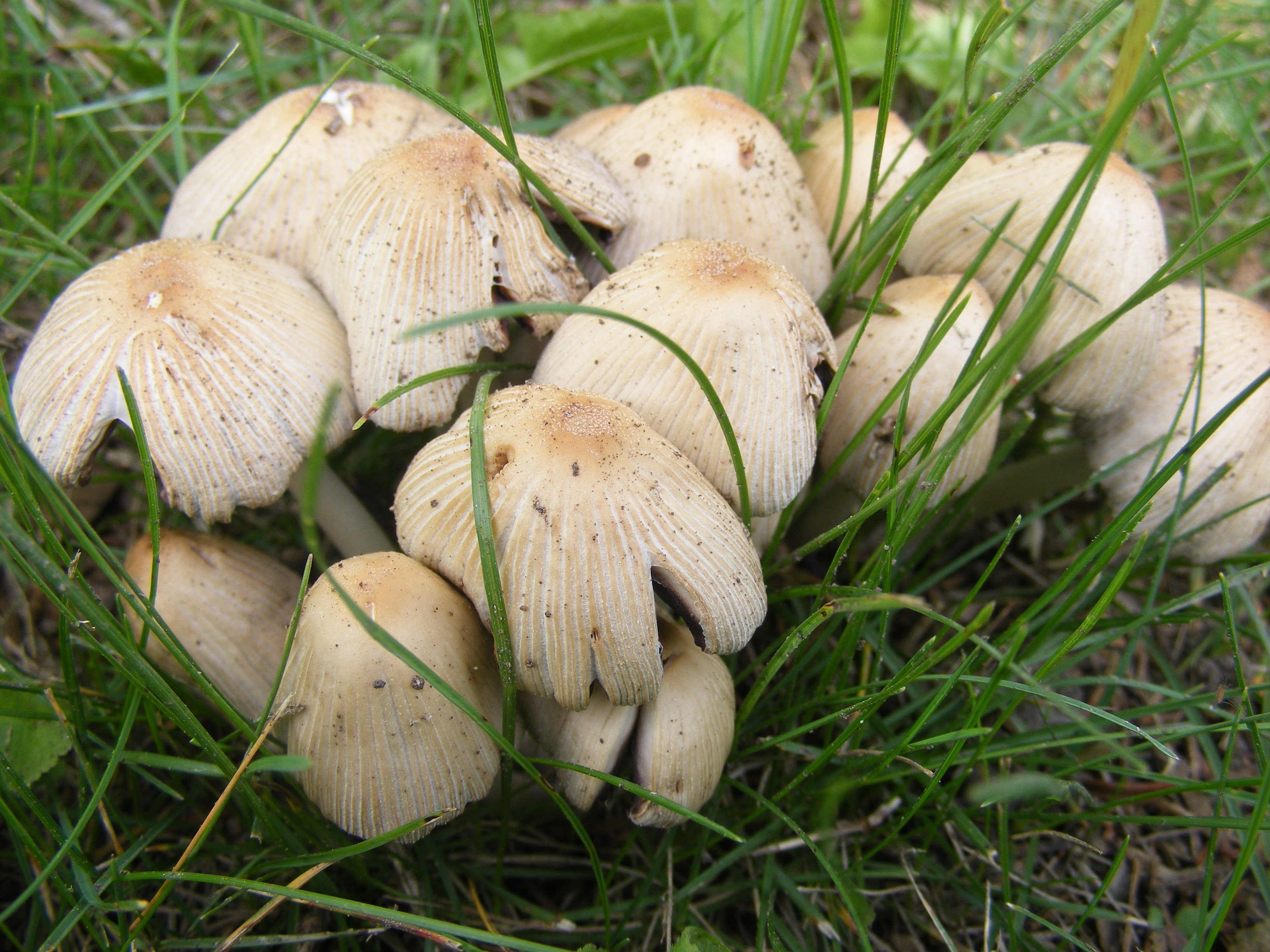 Coprinus micaceus